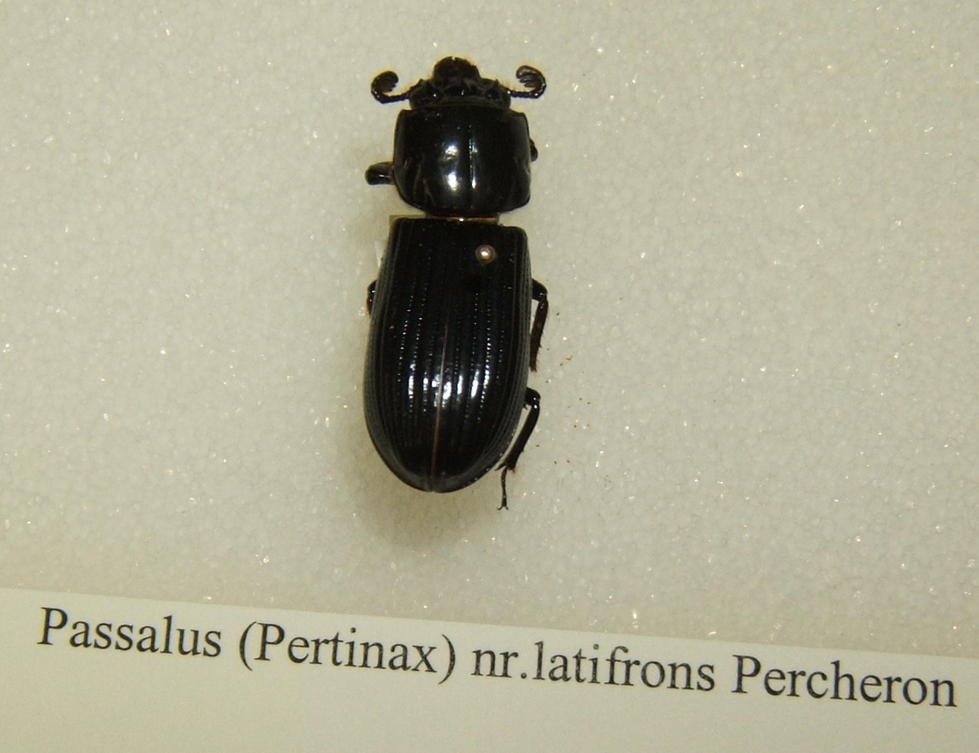 Passalus latifrons adult taken by Shawn Hanrahan at the Texas A&M University Insect Collection in College Station, Texas.